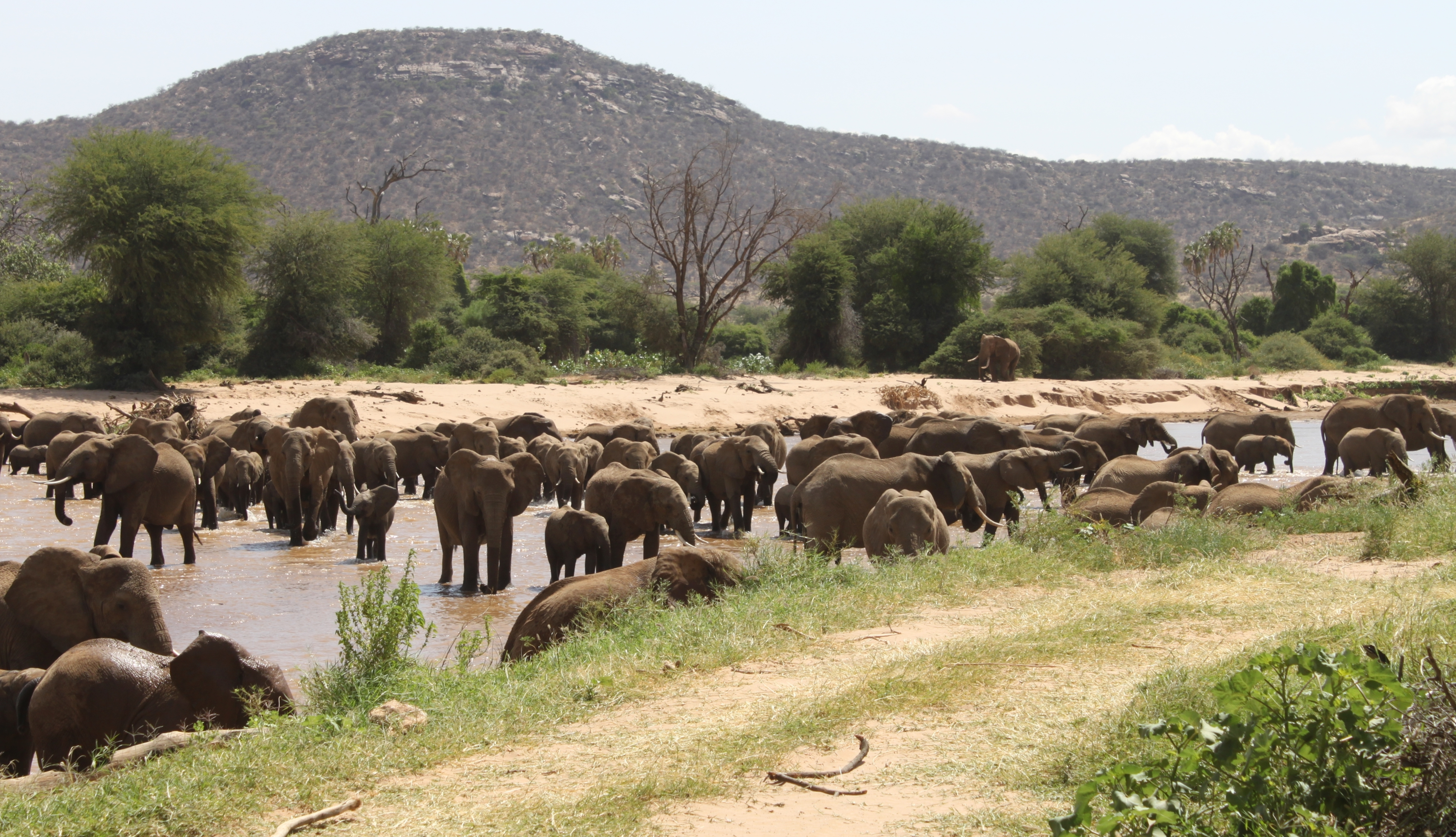 Large herd of Elephants crossing Ewaso Ng'iro river